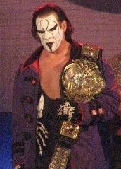 Professional wrestler Sting